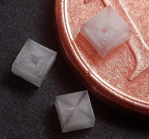 Salt crystals (NaCl) next to a 1 'euro cent'. Shows clearly the cubic shape.